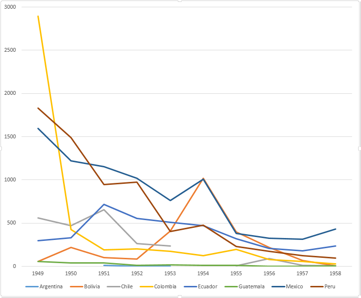 Reported cases of louse-borne typhus in American countries, for the period 1949-1958.[1] The notable decrease in cases correlates with the development of DDT implementation in the 1940s and 1950s.[2]